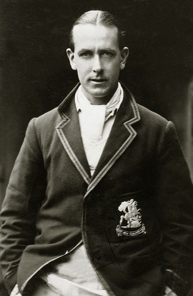 Sport, Cricket, pic: 1929, (A,H,H,) Harold Gillingham, Sussex, pictured wearing his M,C,C, touring blazer for the 1929-1930 tour of New Zealand and Australia, He is the brother (A,E,R,) Arthur Gilligan.